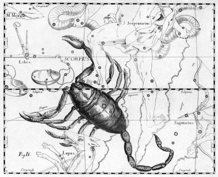 The Canes Venatici constellation from Uranographia by Johannes Hevelius. The view is mirrored following the tradition of celestial globes, showing the celestial sphere in a view from "ouside"